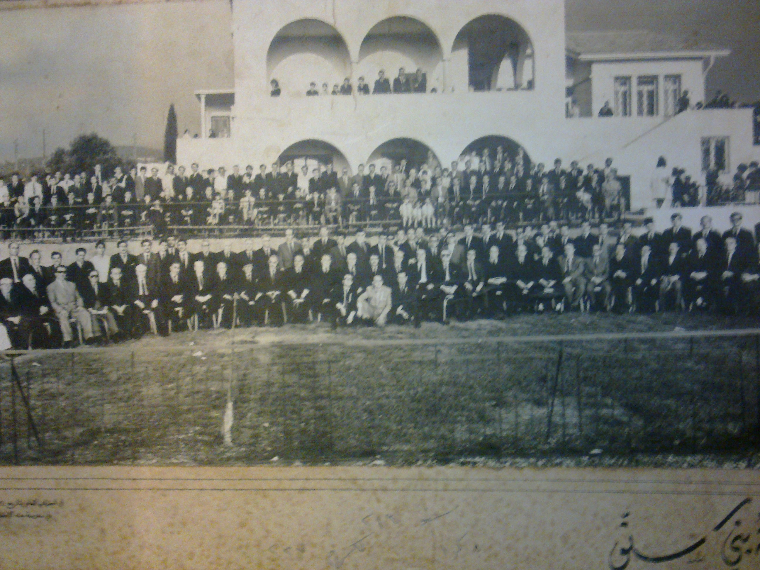 This picture was photographed in May 24 1964 at khalda (Jannat Al-atfal school) during one of the Al-Sinno gatherings